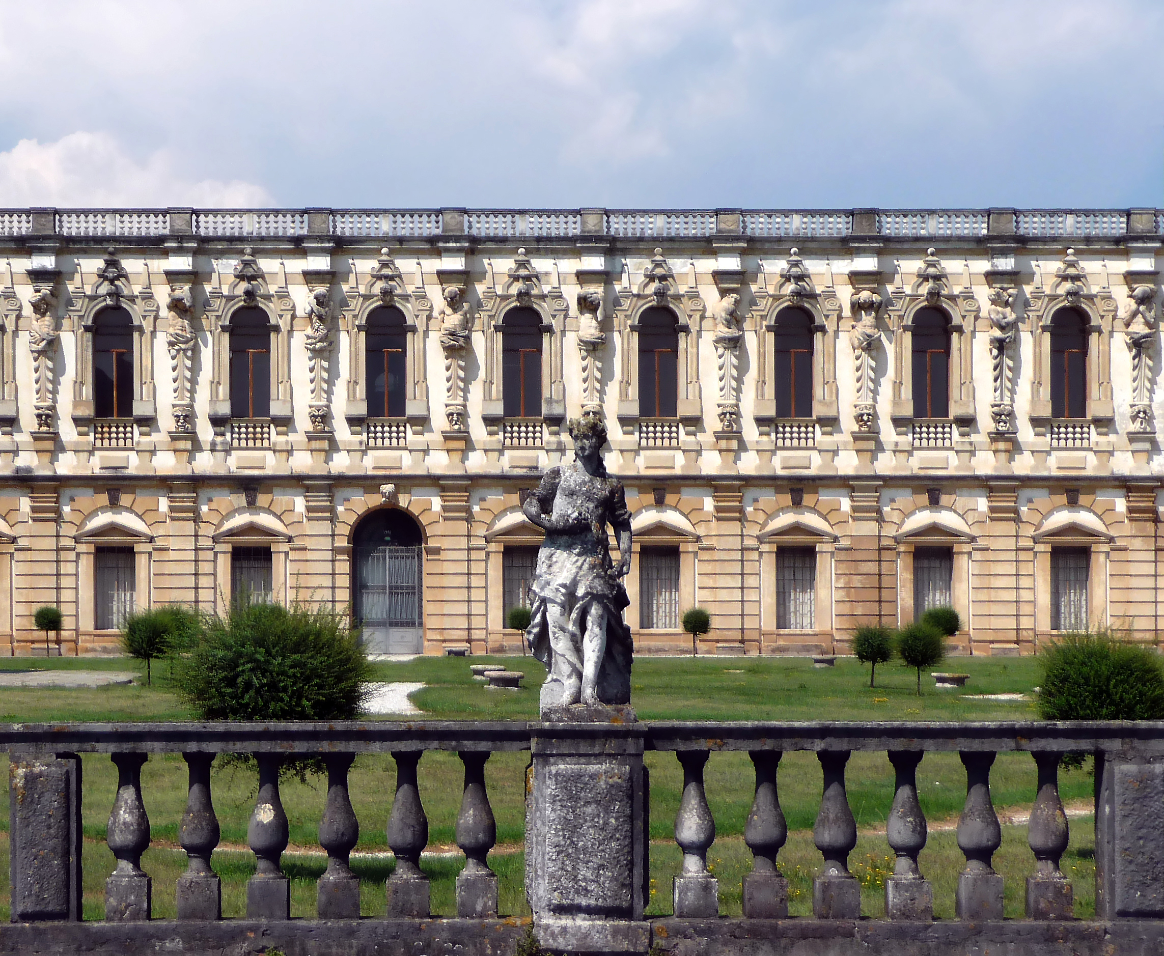 Villa Contarini is a patrician villa veneta in Piazzola sul Brenta, province of Padova, northern Italy. (→Villa Contarini)